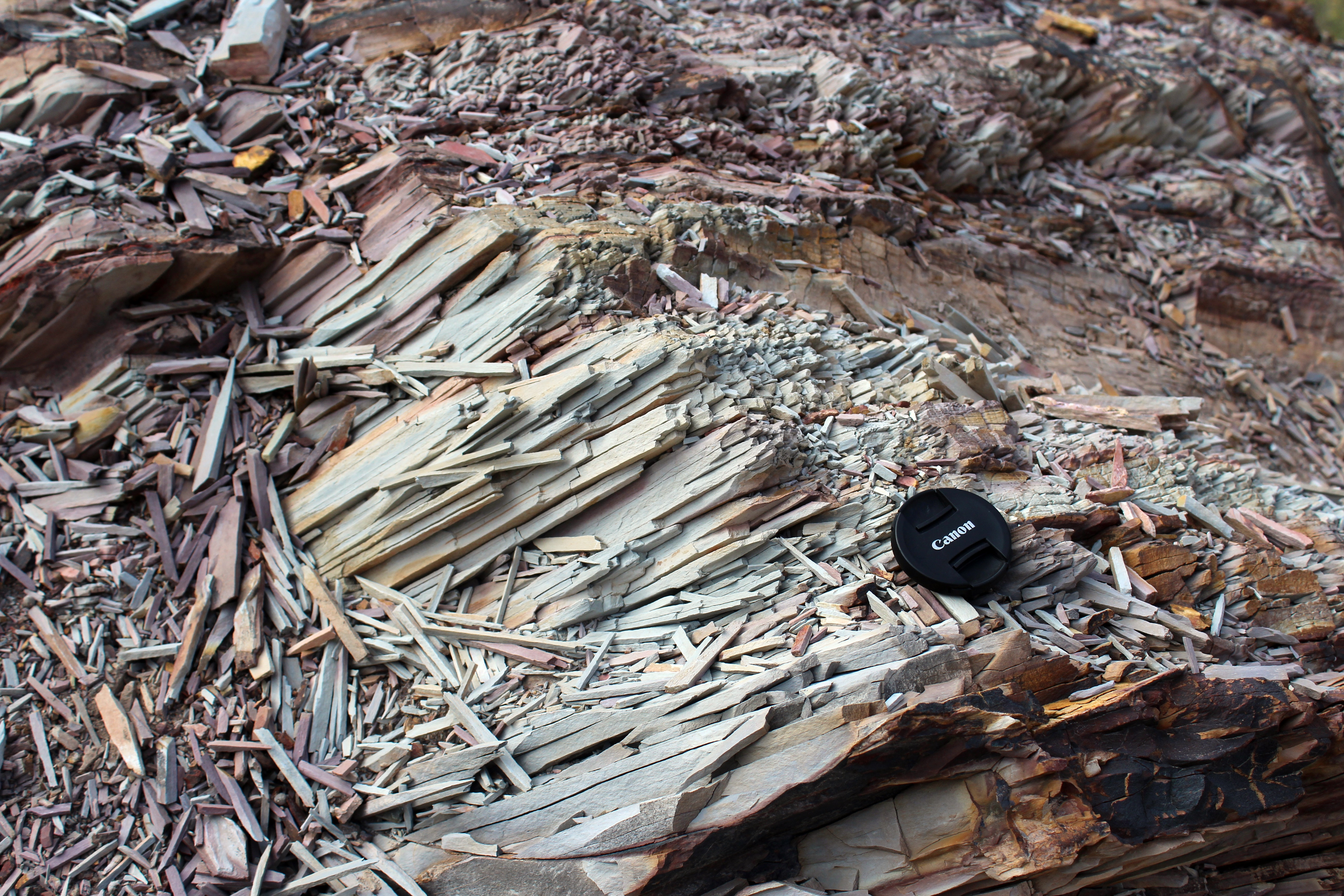 Pencil cleavage in the Neoproterozoic Mistal Formation, Jebel Akdhar, Oman